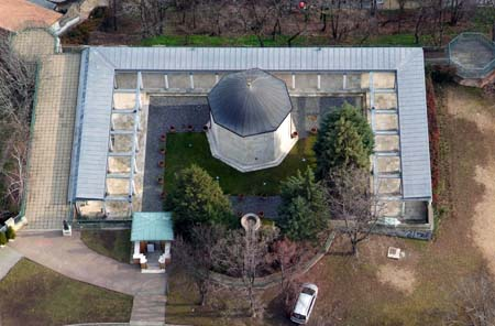 Gül Baba operette, Budapest, Hungary, aerial photography